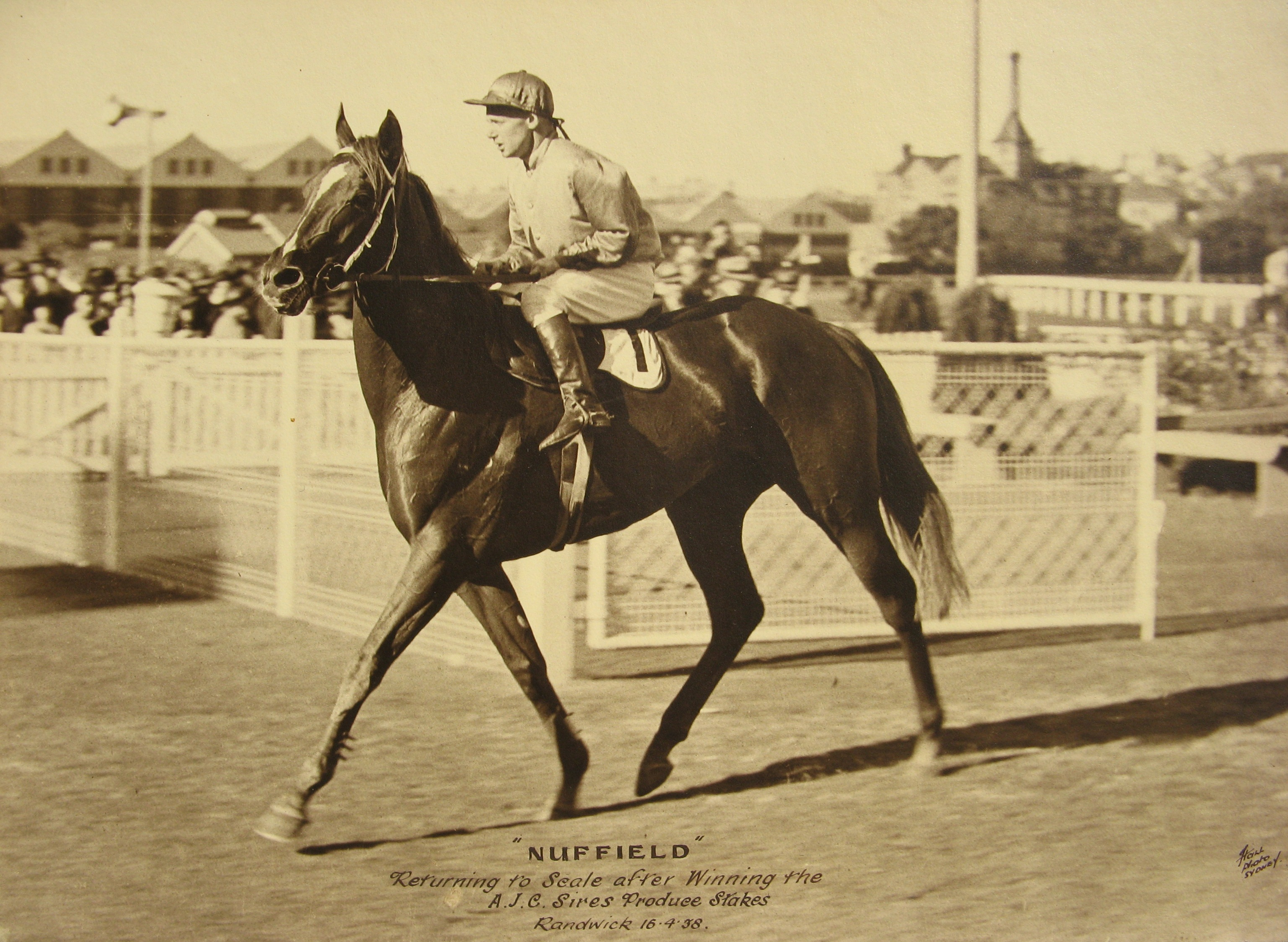 FROM FAMILY COLLECTION COPIED FROM ORIGINAL PHOTO